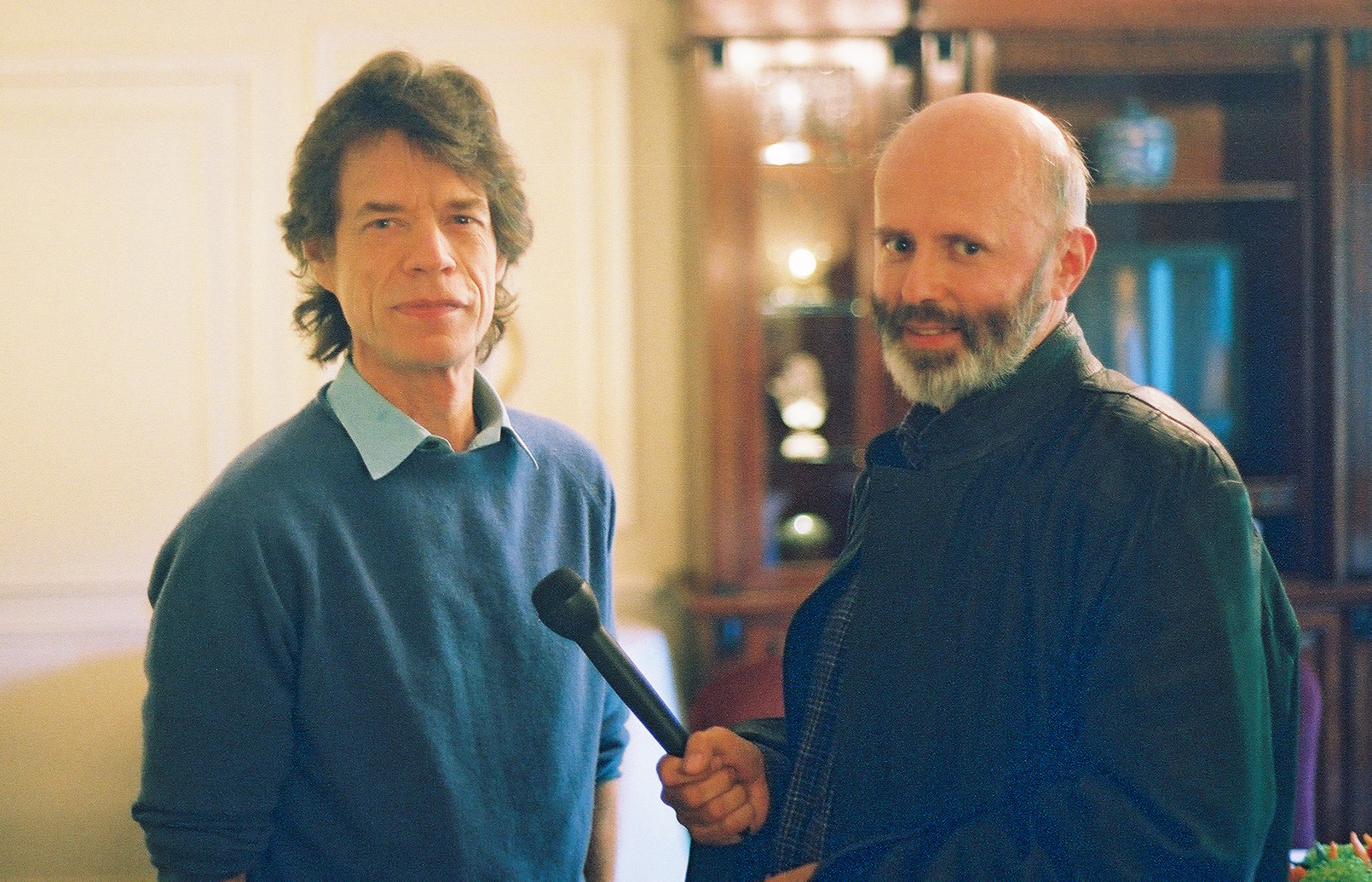 Marek Garztecki interviewing Mick Jagger in London at the Mandaring Hotel on the release of his new album.